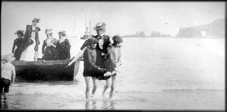 visit of caves of Morgat (old photo)